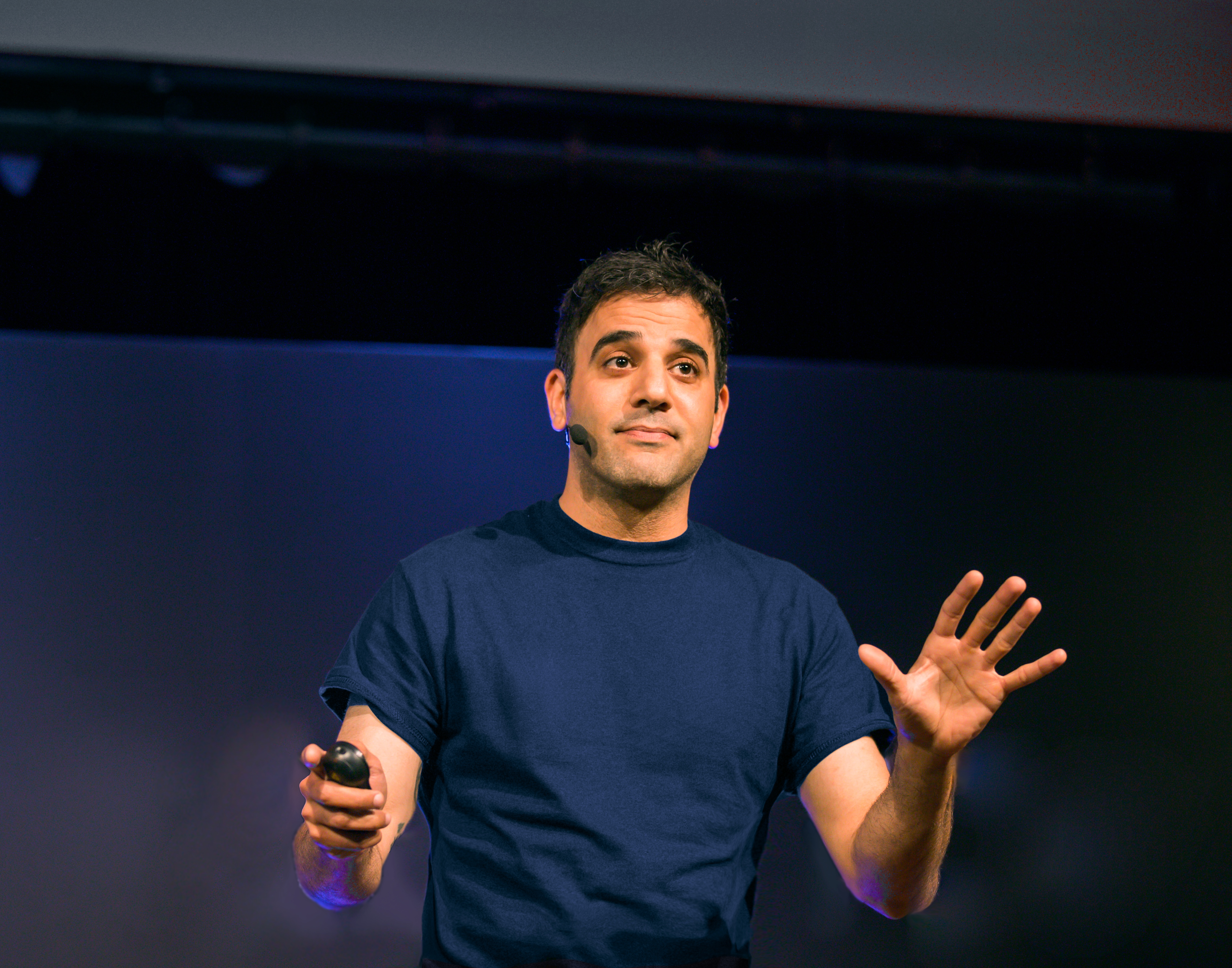 Rodney Habib speaking at TedX NSCC Waterfront, Dartmouth, Nova Scotia